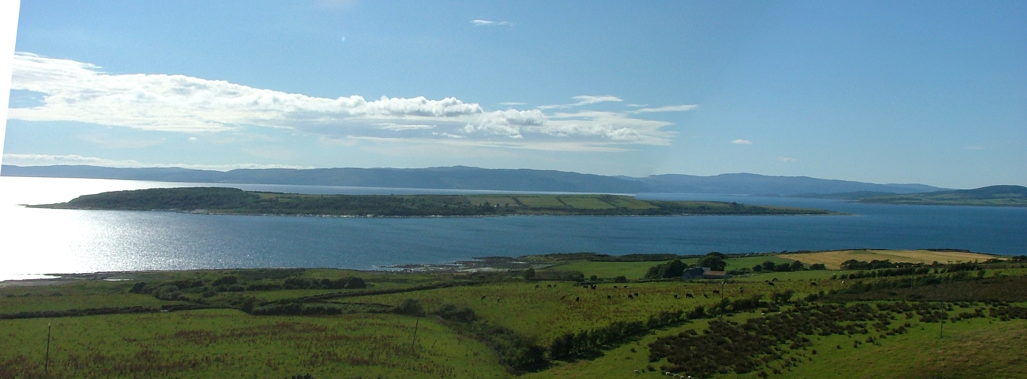 Badly stitched picture of Inchmarnock taken from Tarmore Hill on the Isle of Bute.